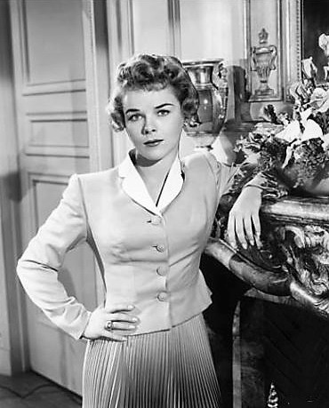 Sally Forrest, promotional still